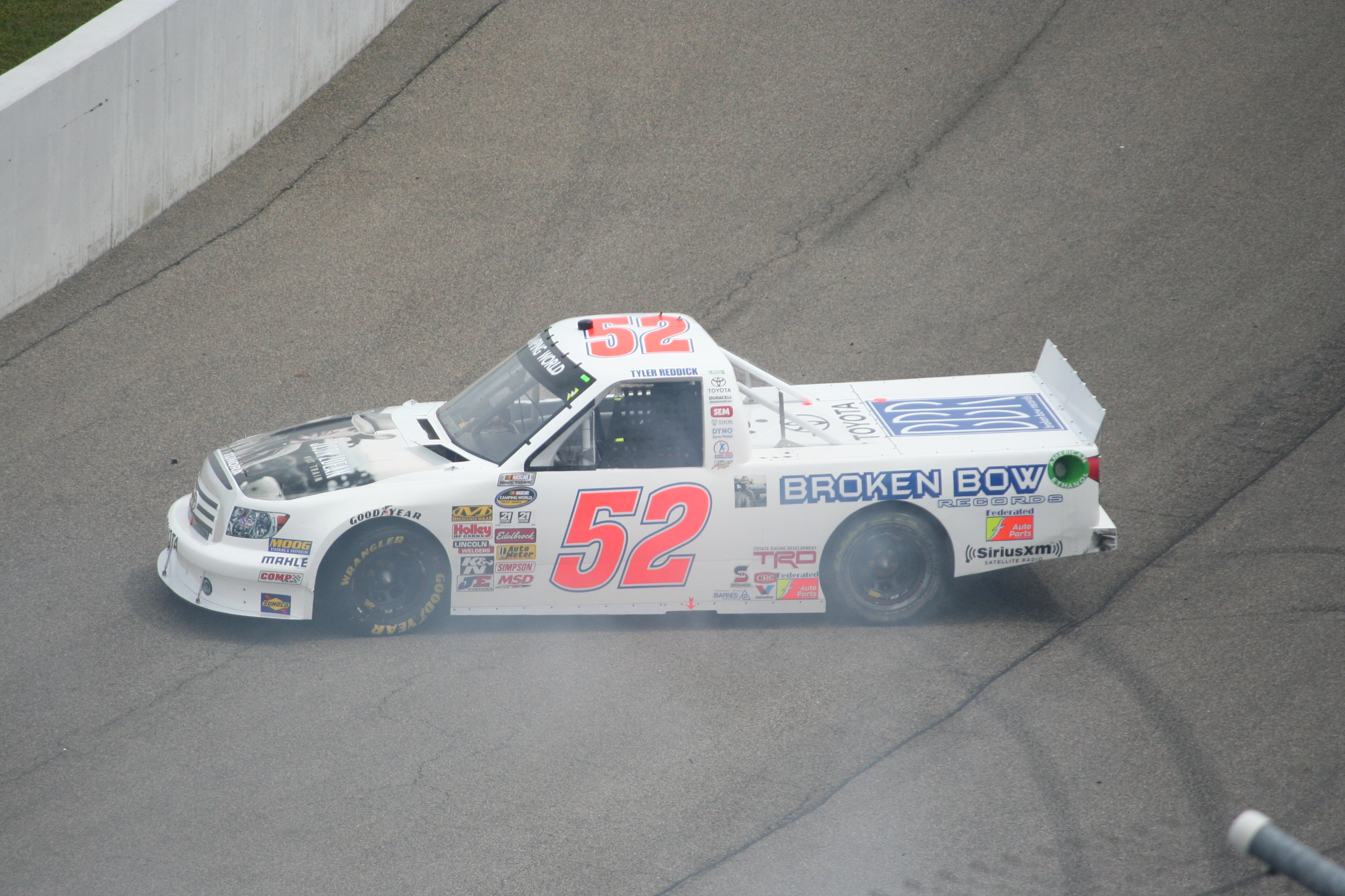 Tyler Reddick spins Ken Schrader's No. 52 Toyota during the North Carolina Education Lottery 200 at Rockingham Speedway, Rockingham, NC, April 14, 2013